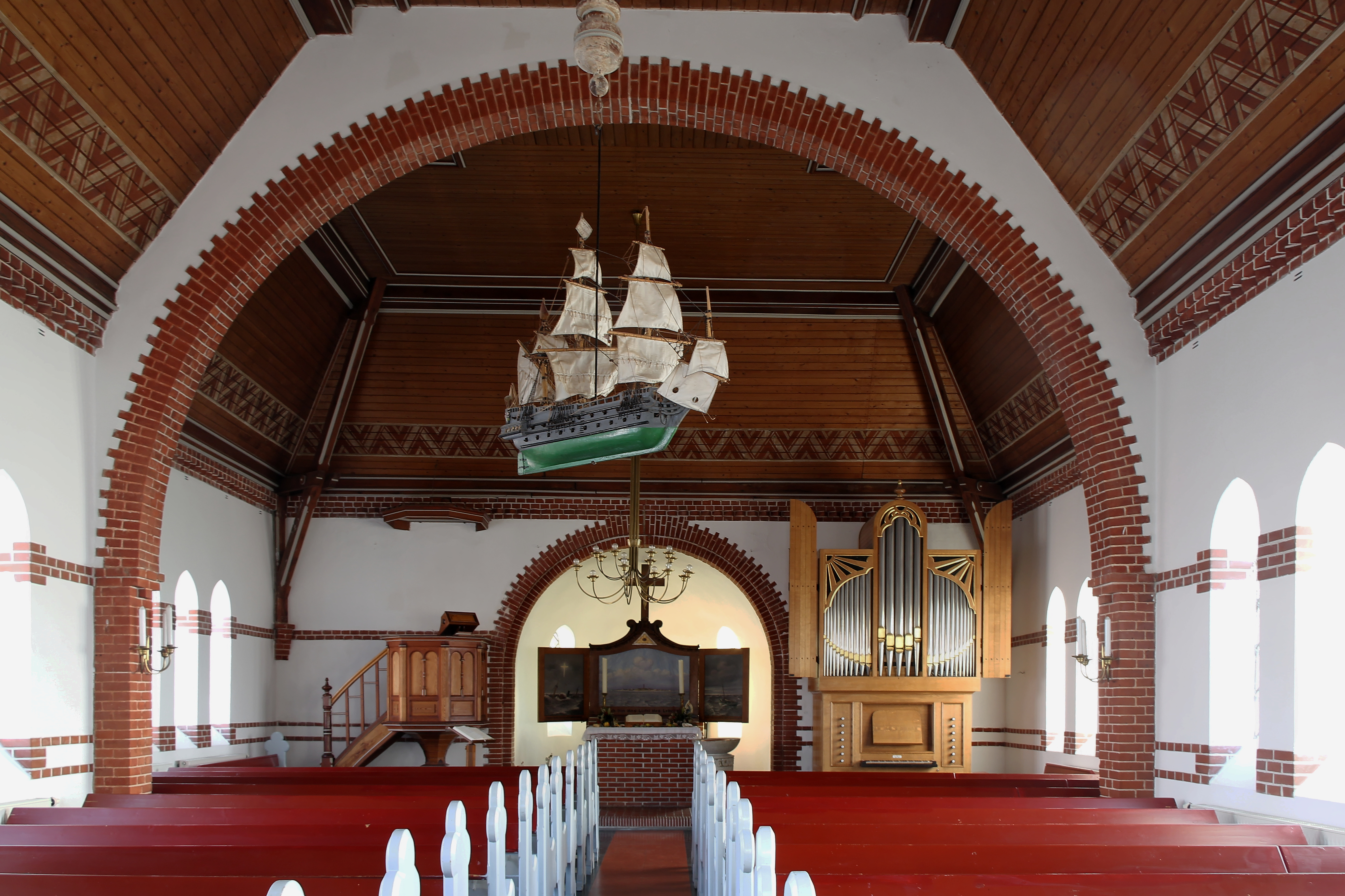 Lutheran Chapel in Wittdün on the frisian island of Amrum, main room